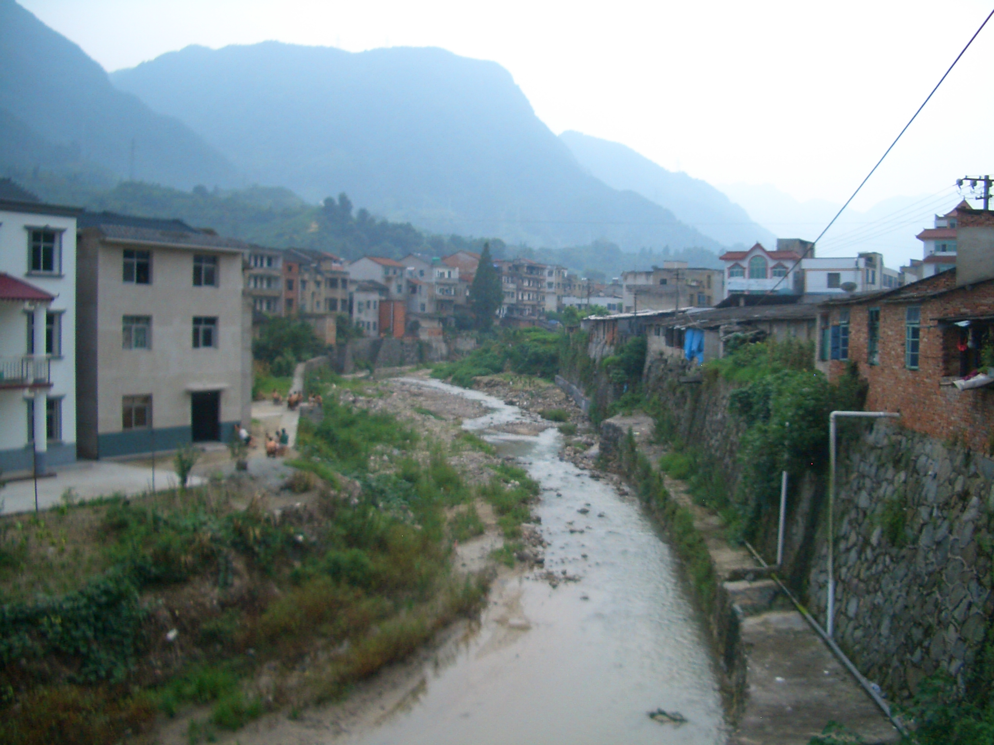 A small residential and market area, within the town of Sandouping, but quite distance to the west to the main town area. Located right next to the southern entry to the Three Gorges Dam, it is home to many of the dam workers.